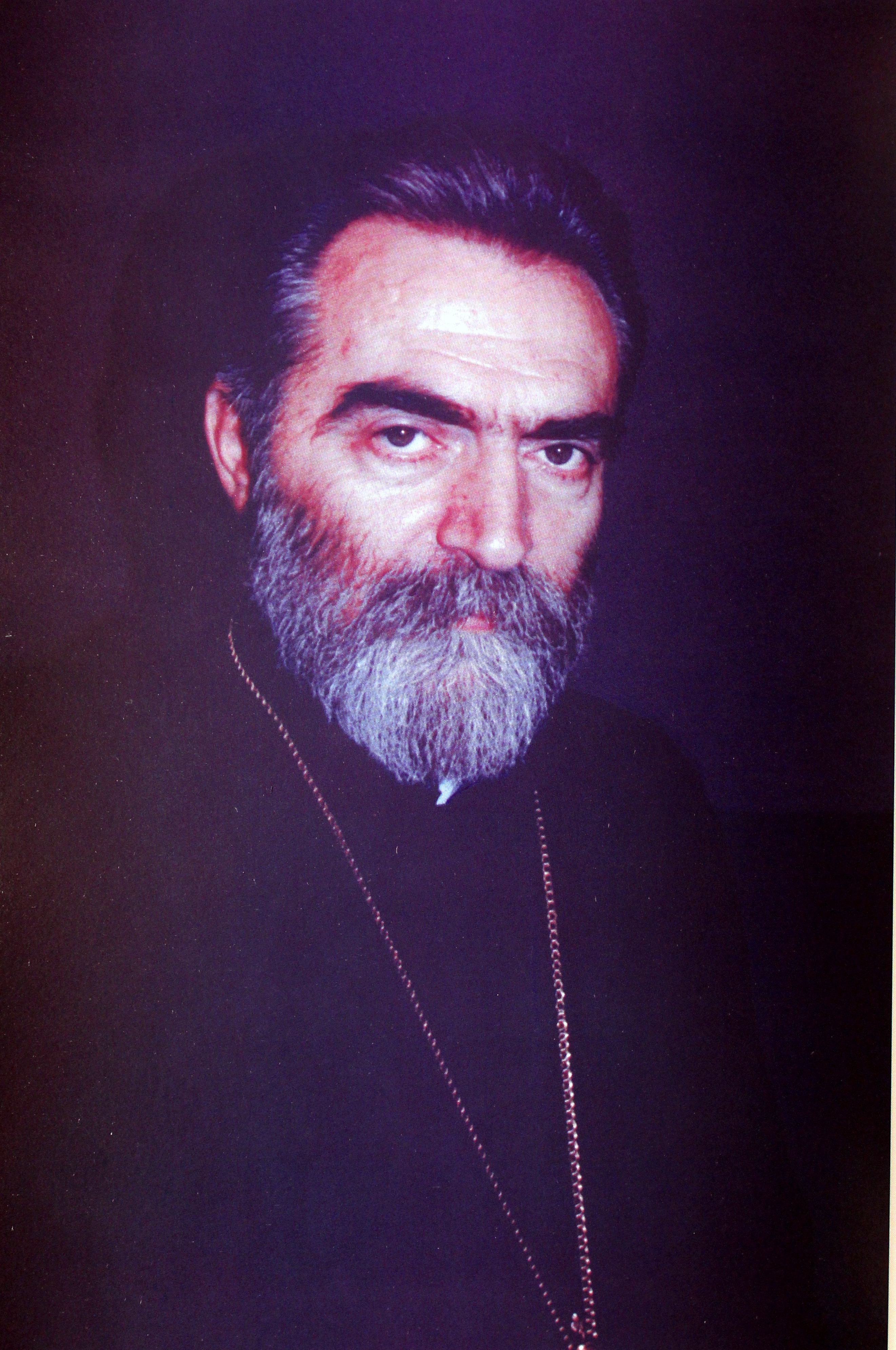 The making of this file was supported by Wikimedia Armenia.